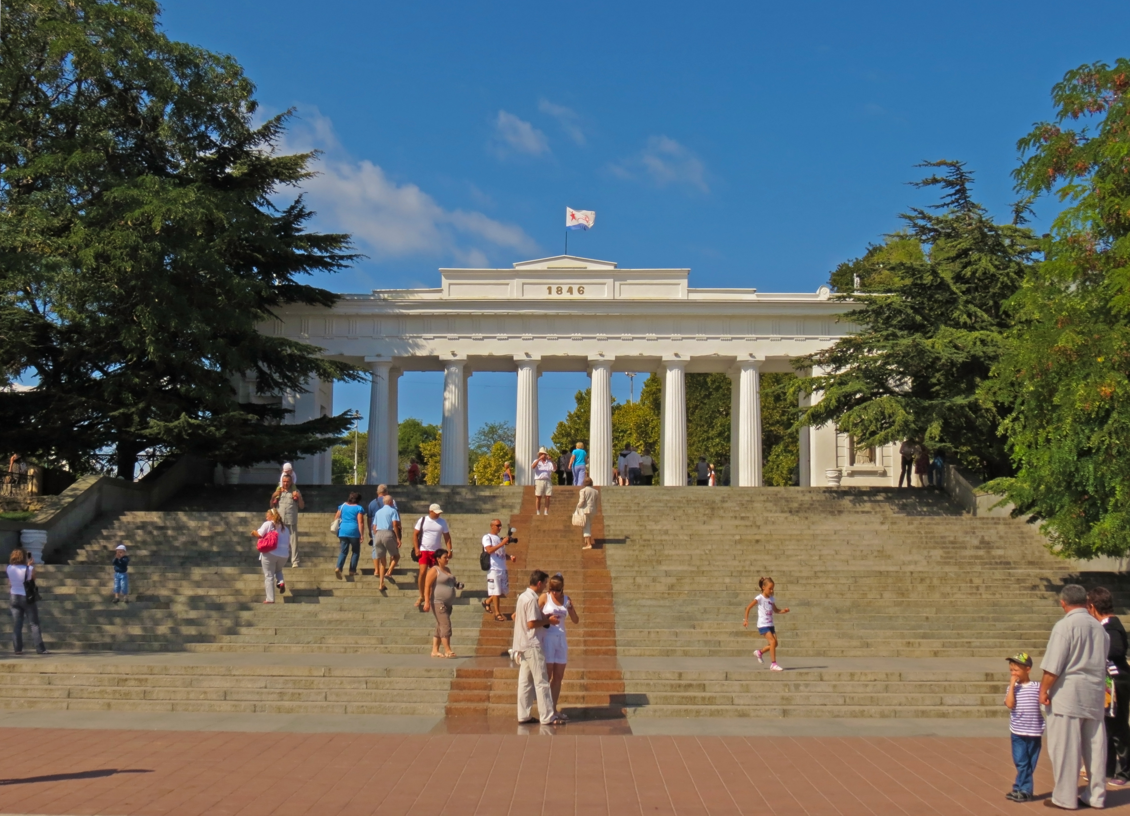 Grafskaya Wharf. Sevastopol, Ukraine